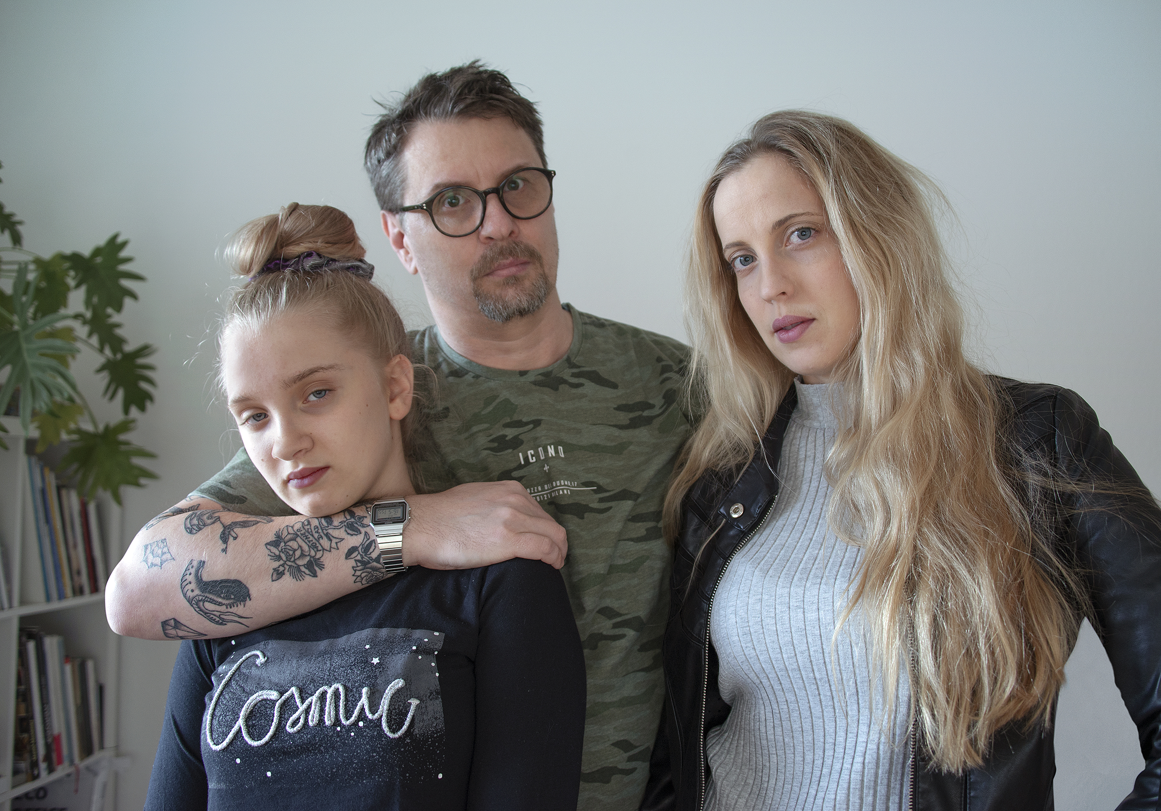 Self portrait of an an artist group consisting of a married couple and their daughter.